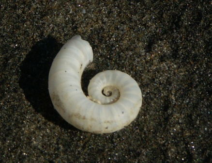 Bethels Beach Shell - photo taken and uploaded by Paul Moss, Photographer, Artist, Paul Moss Photographer Artist NZ